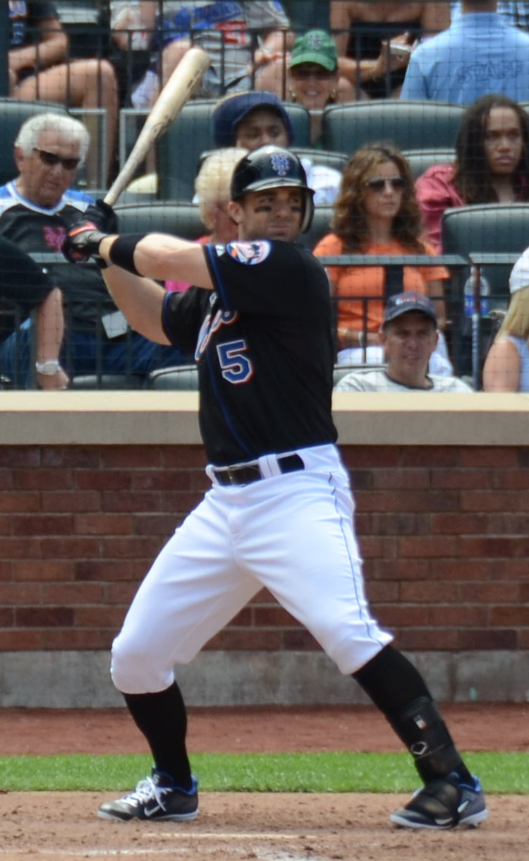 David Wright